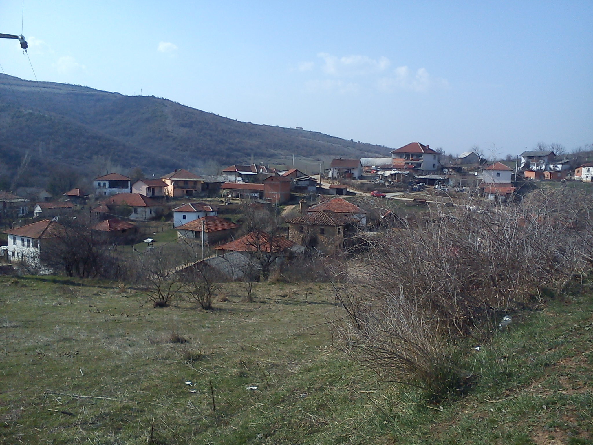 Novo Selo, Zelenikovo Municipality, Macedonia